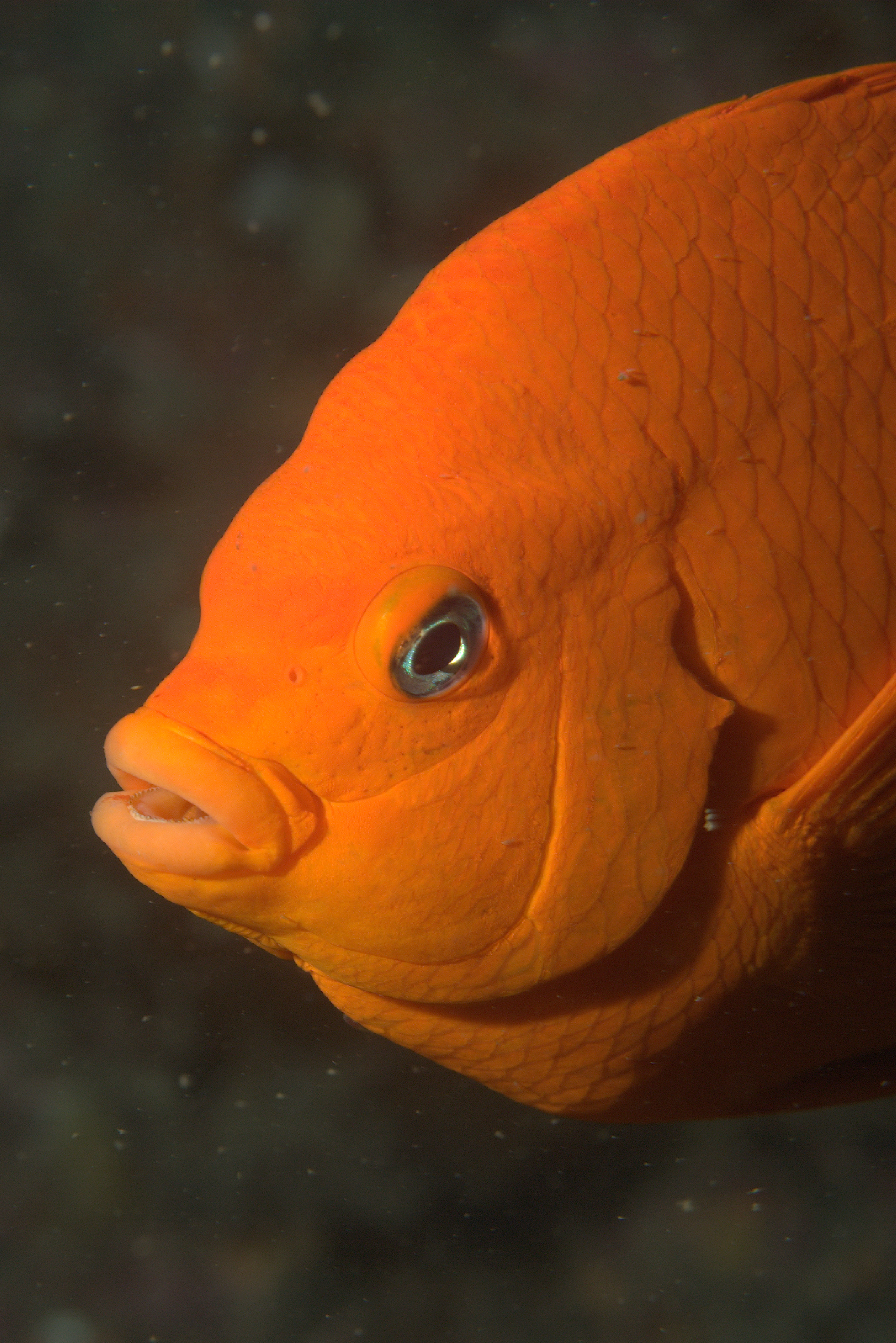 Hypsypops rubicundus (Garibaldi fish). State fish of California.